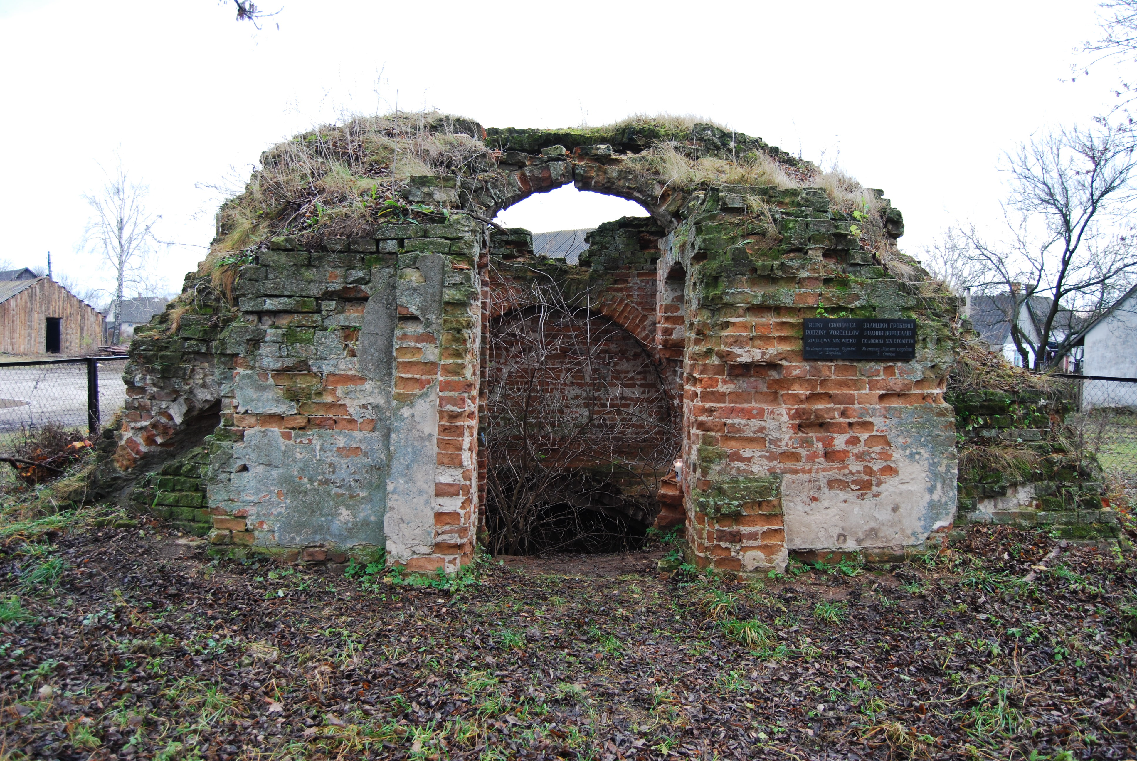 Tomb of Worcell family